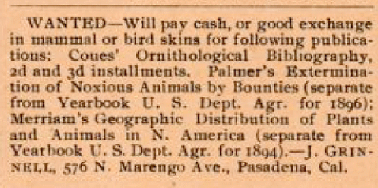 Want Ad section of magazine showing Grinnell offer to buy or trade bird skins for various publications. "The Condor" is published by the Cooper Ornithological Society in United States.